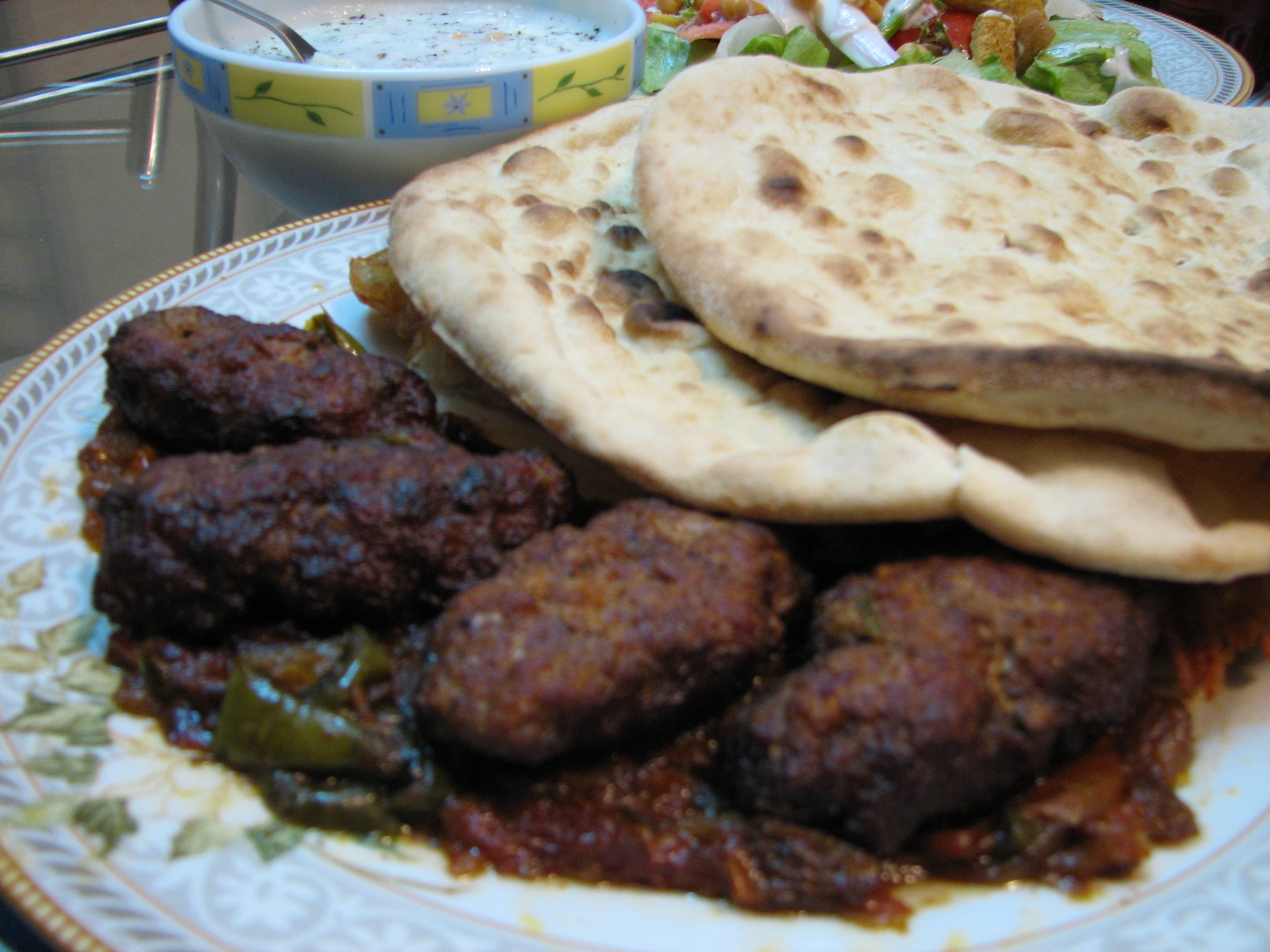 Kufta Kebab - Beef hamburgers, eaten with flat bread.